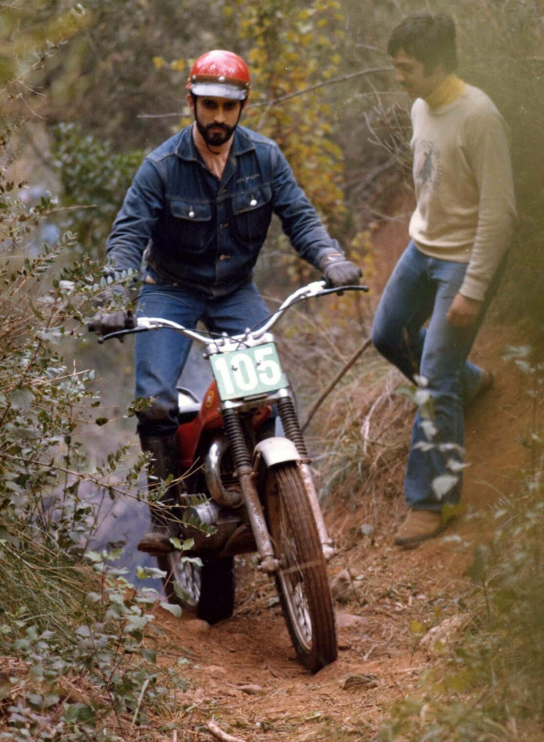 Joan Font on his Montesa Cota 172 at the 1975 Tres Dies dels Cingles de Trial, near from Sant Feliu de Codines (Catalonia), being observed by a marshall of the Moto Club Cingles de Bertí, Joan Lentijo